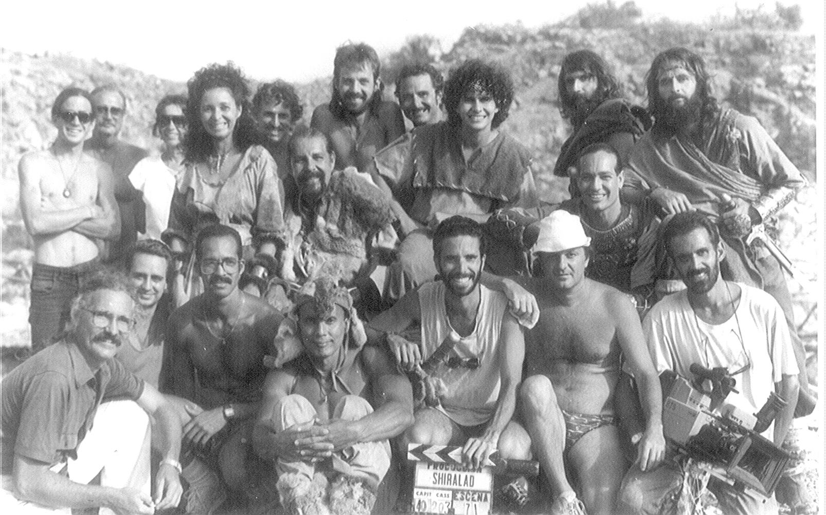 Depart from the equipment of realization and of the cast of Shiralad. To the left, I get down, your director: José Luis Jimenez (personal photo of Ivan2010, member of the series)